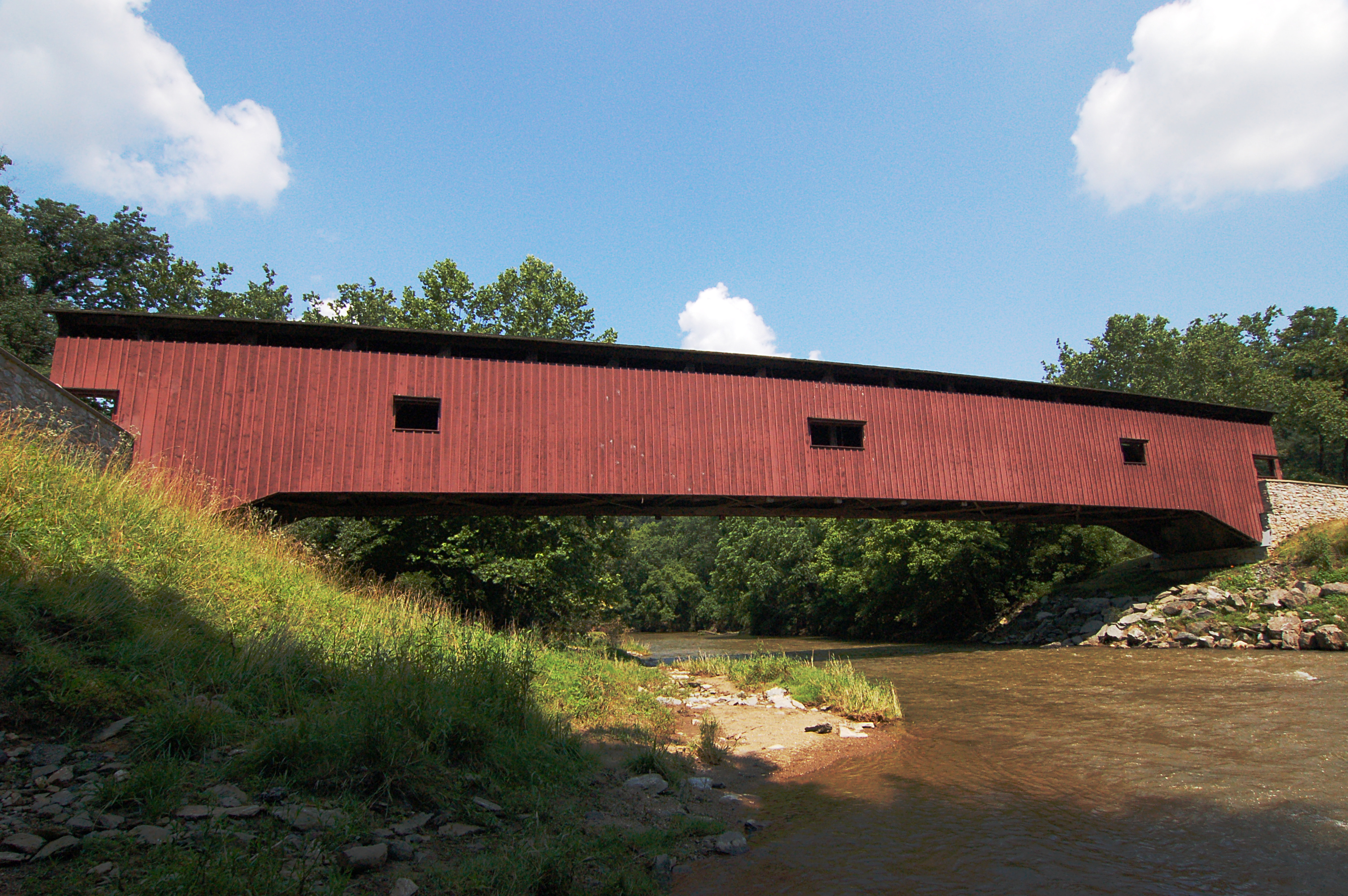 A photograph of the side of the Colemanville Covered Bridge. The bridge is located in Lancaster County, Pennsylvania.